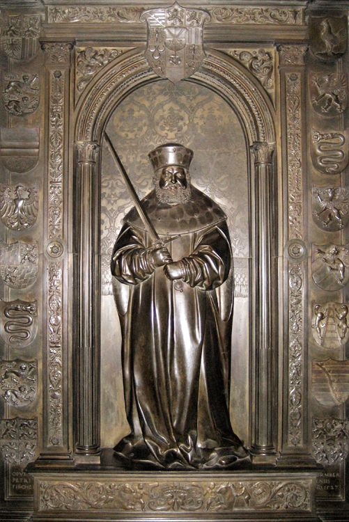 Prince-elector Frederick III. of Saxony (sculpture by Peter Vischer the Younger) inside the Schlosskirche at Wittenberg, Germany